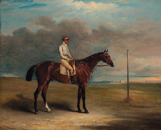 Spanie, winner of 1832 Epsom Derby. Painting by John E. Ferneley (1782-1860). Artist dead for 152 years.